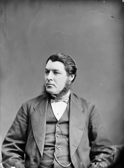 Charles Tupper while Minister of Railways and Canals of Canada